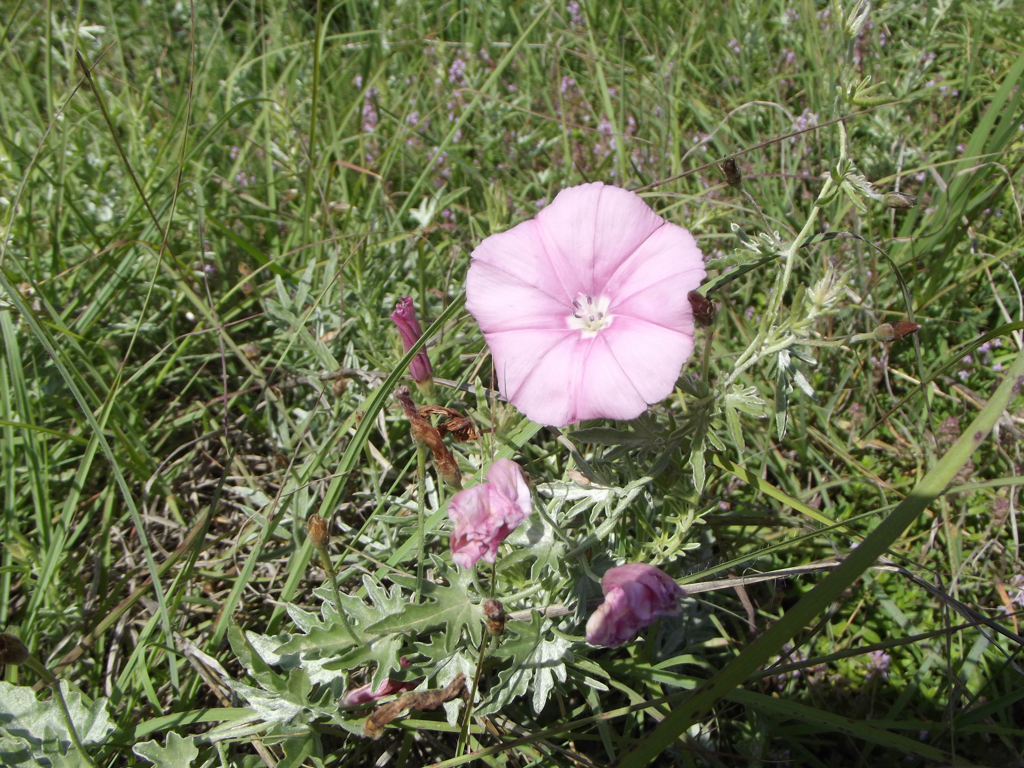 Convolvulus althaeoides